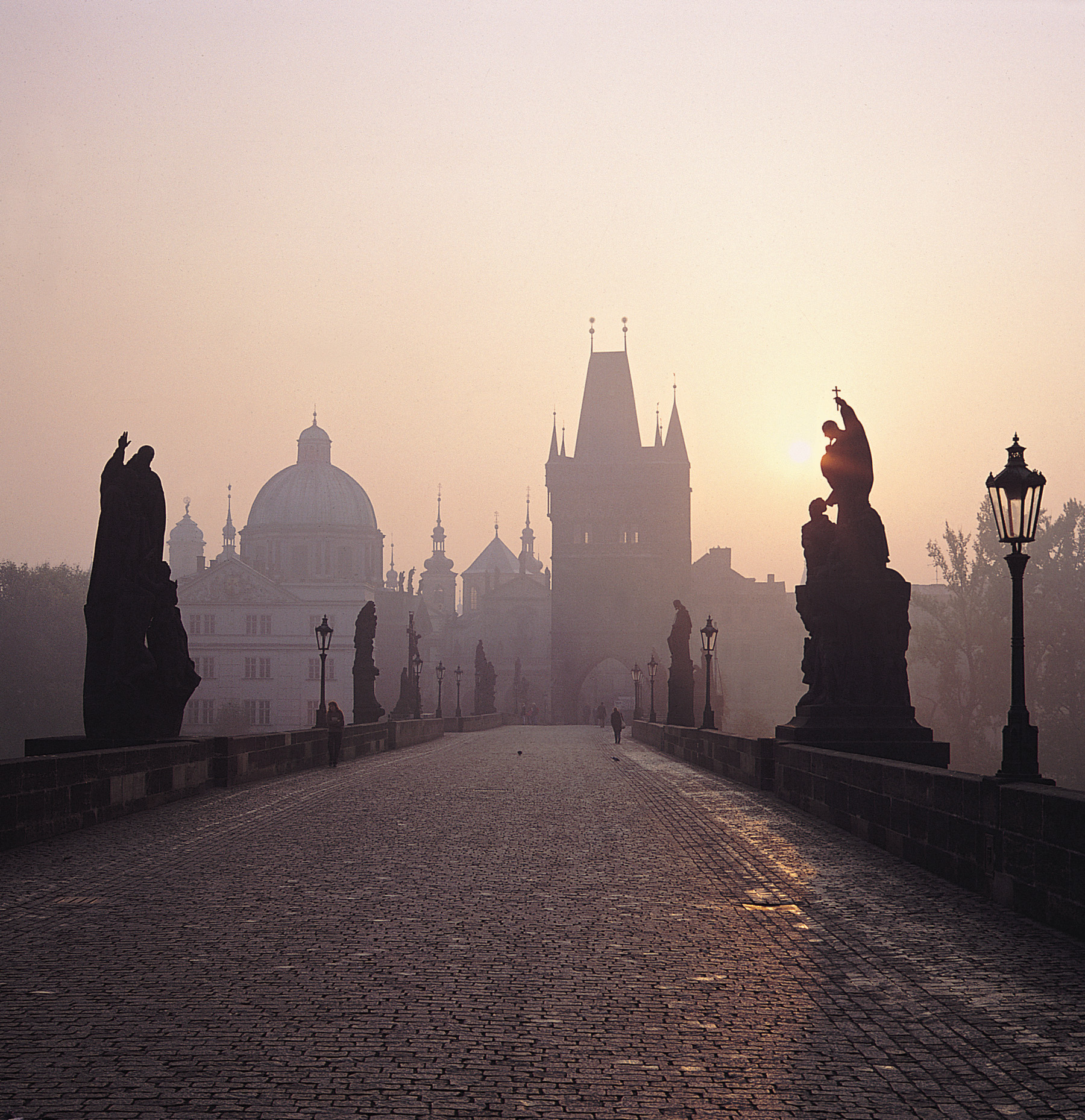 Charles Bridge in the morning